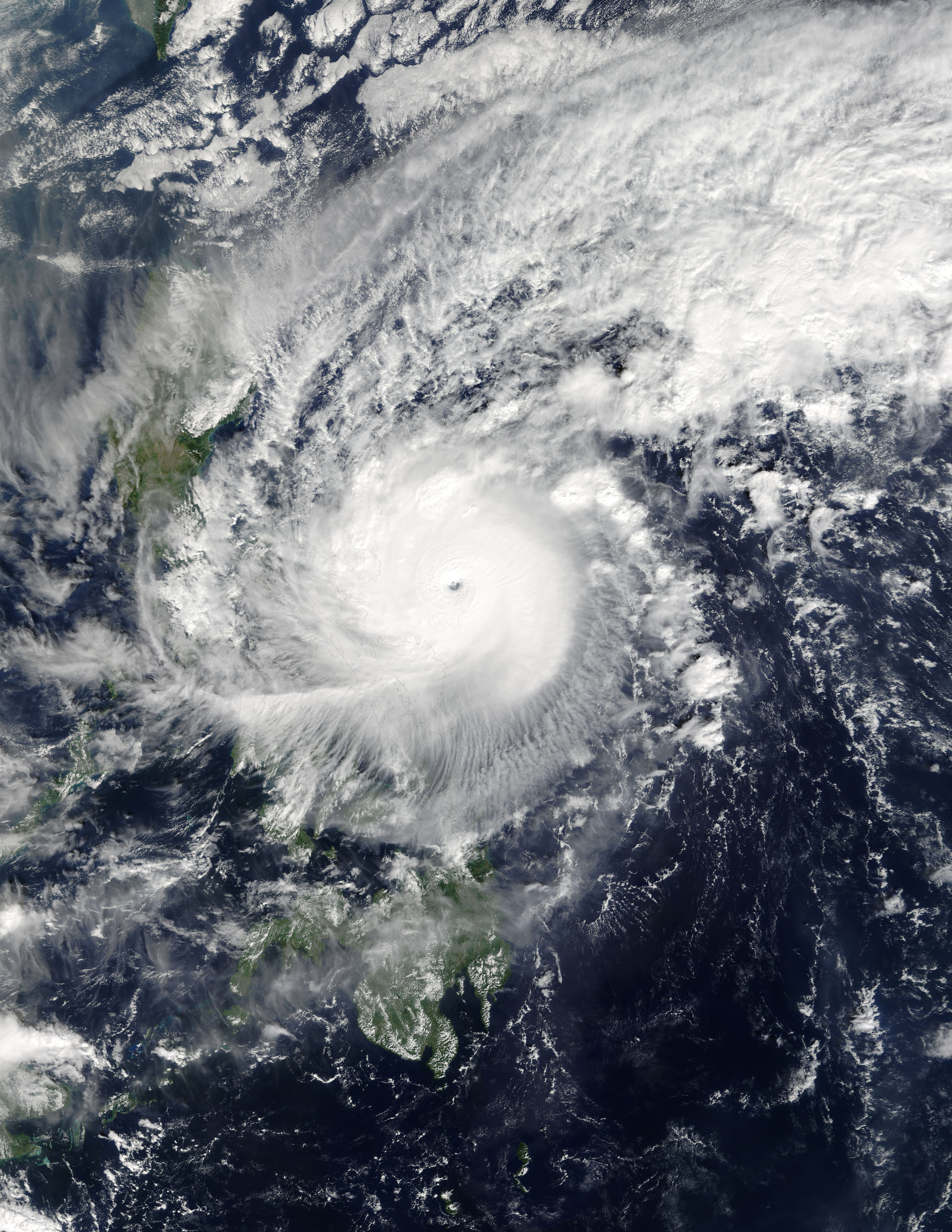 Super Typhoon Nock-ten (30W) over the Philippines